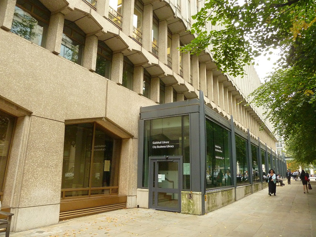 Found while exploring the city looking for the last 3 bookbenches.